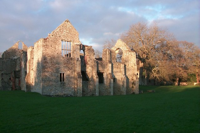 Netley Abbey